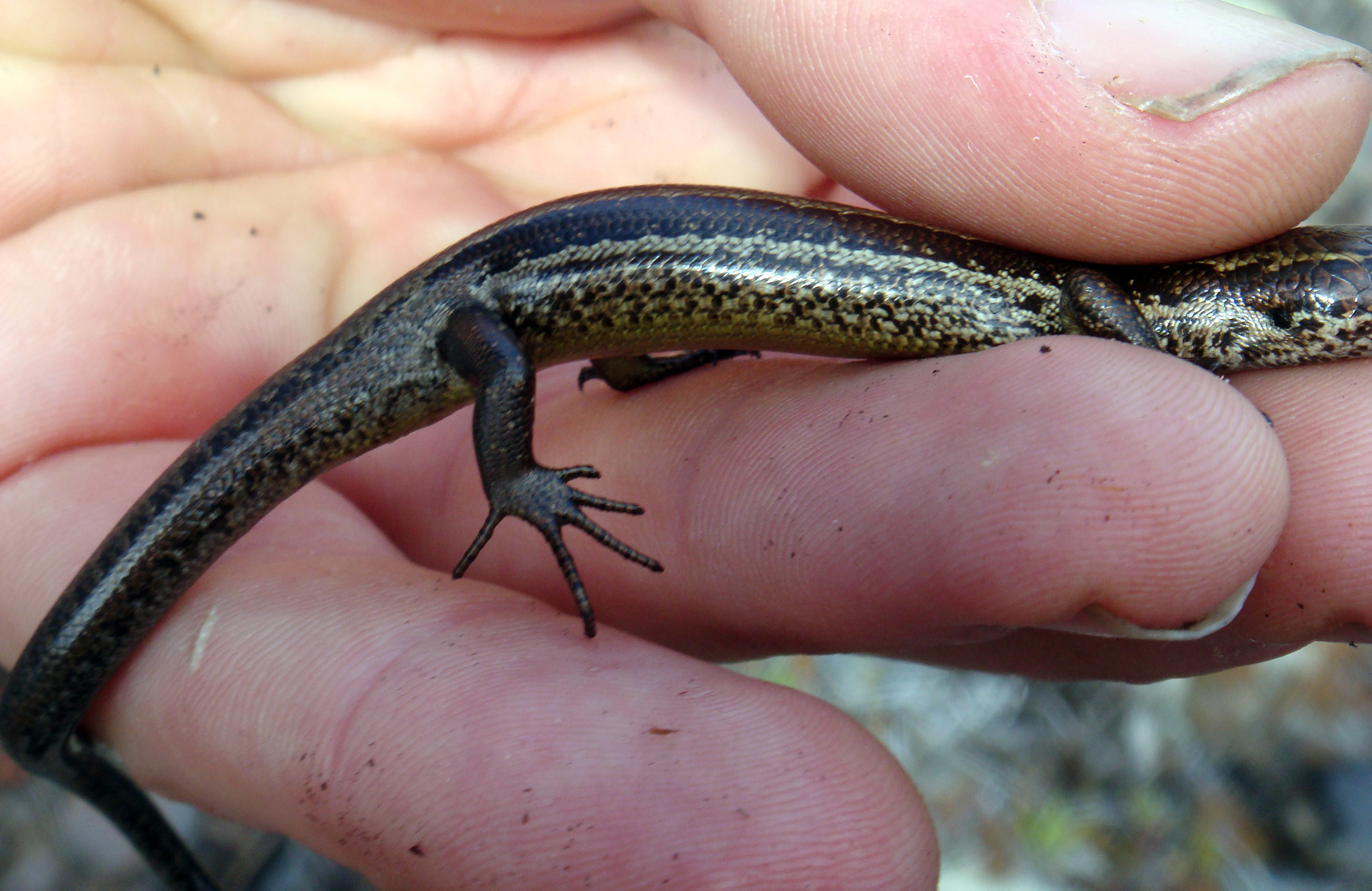 Photo of Oligosoma infrapunctatum uploaded from iNaturalist.